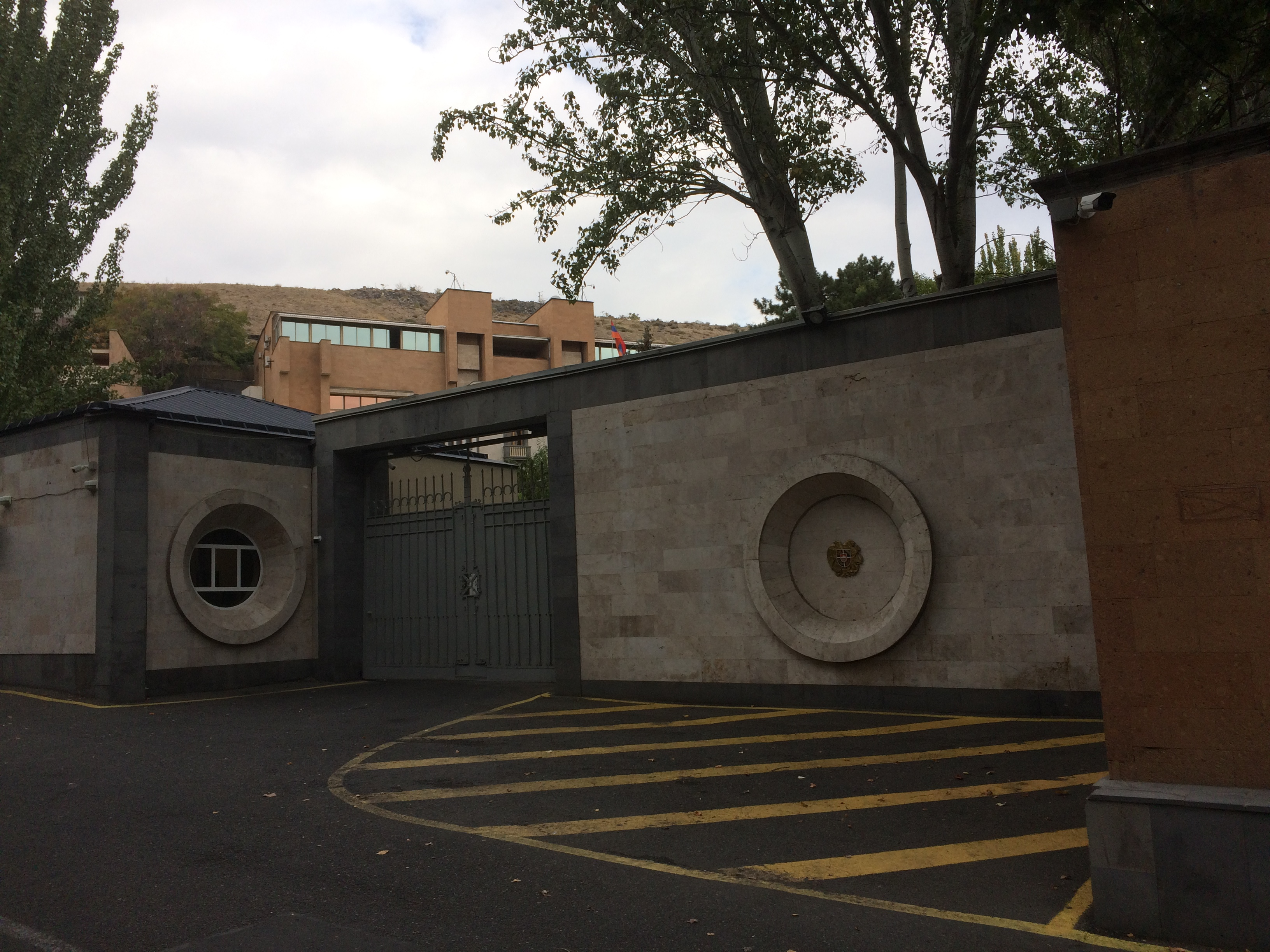 President’s palace in Yerevan